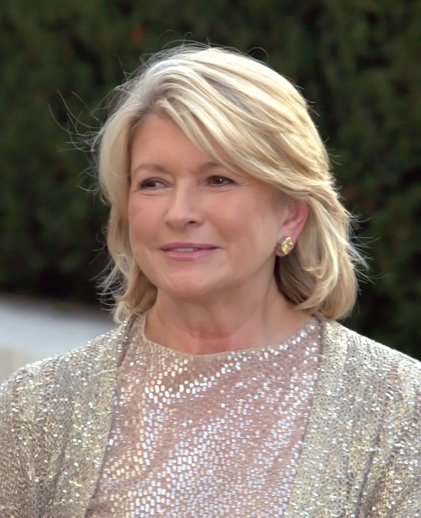 Martha Stewart at the 2009 premiere of the Metropolitan Opera in New York City. Photographer's blog post about event and photograph.